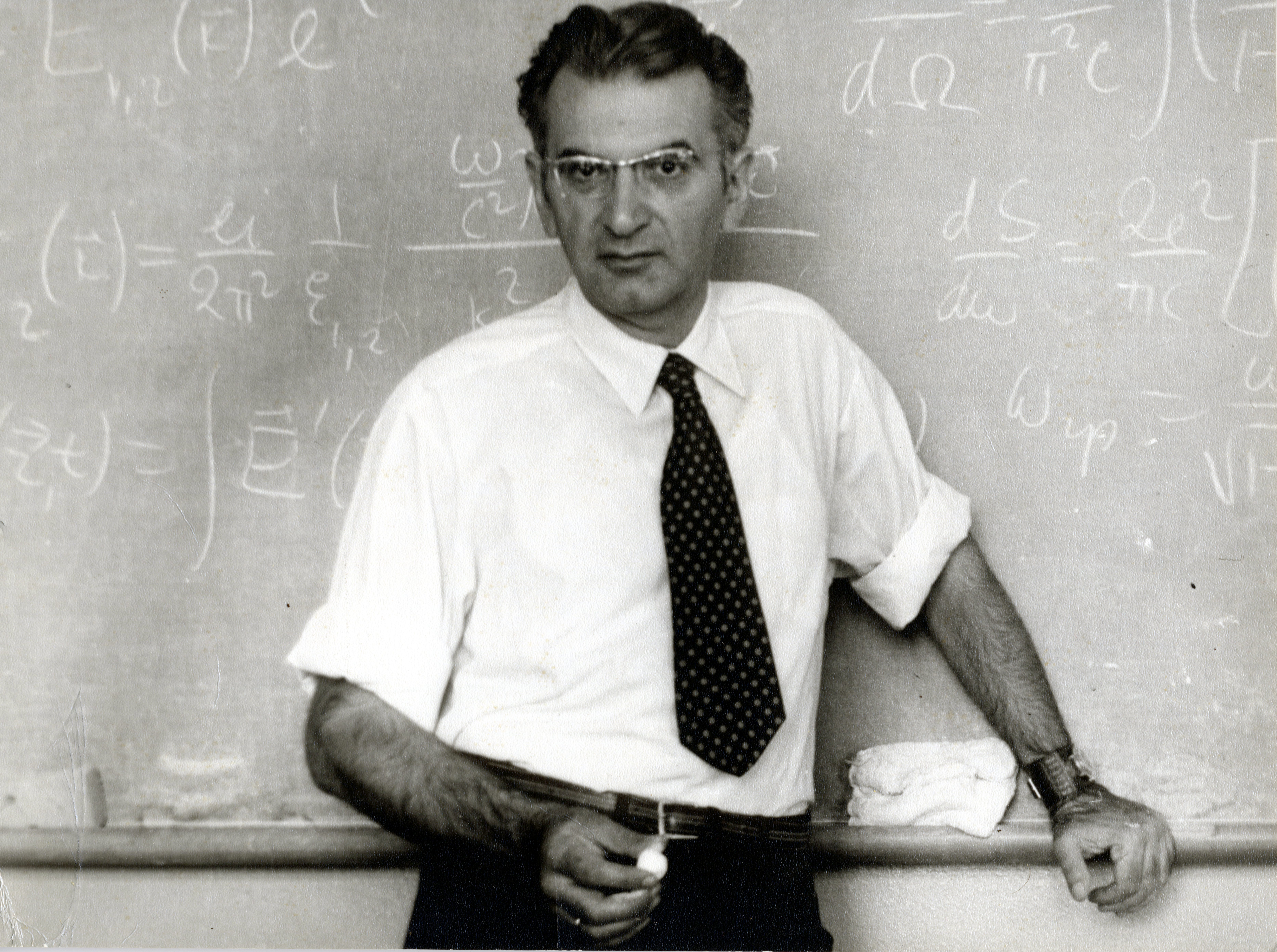 picture of Gregory Garibian